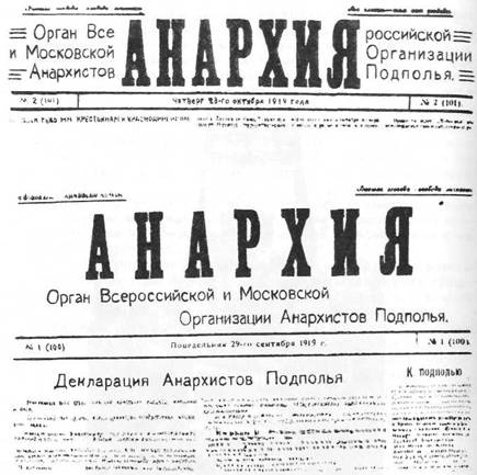 The editorial of the newspaper "Anarchy" with the declaration of the launch terrorist struggle against the Bolsheviks